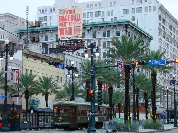 Canal St. and S. Rampart; New Orleans, LA